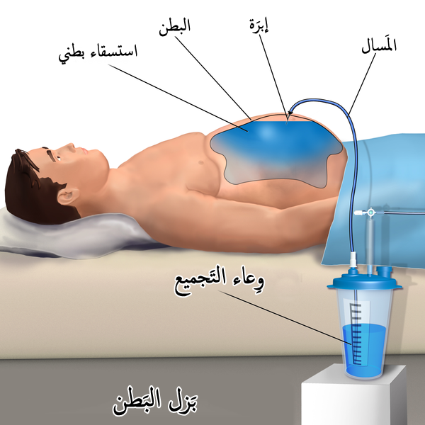 Abdominal Paracentesis. This image was donated by Blausen Medical. Please visit our website to see more medical illustrations and animations.